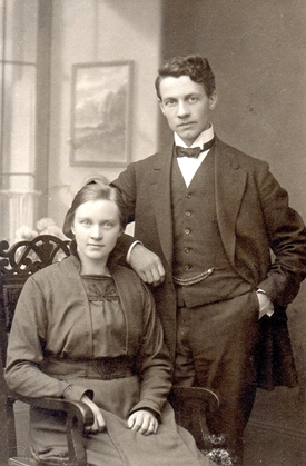 Vaino Kohtanen is a religious pioneer and past President of the Seventh-day Adventist Church in Finland.